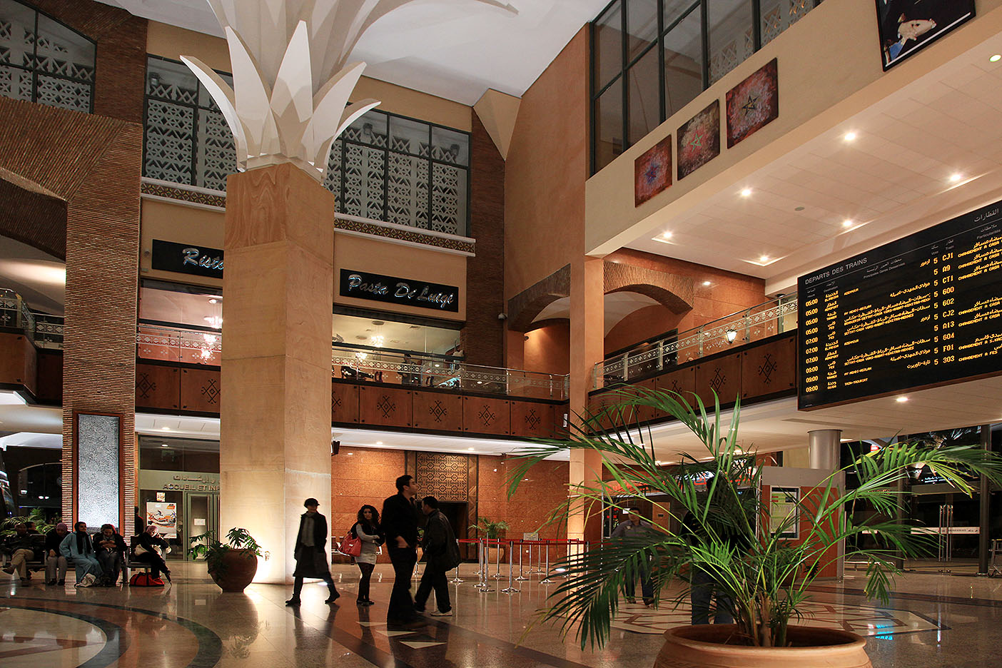 The interior of the new Marrakech train station. 2009